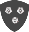 Coat of arms of the Masselot family from Northern France and Flanders